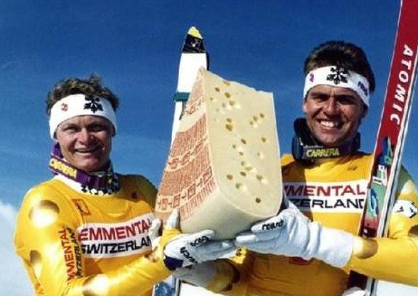 Fashion Faux Pas